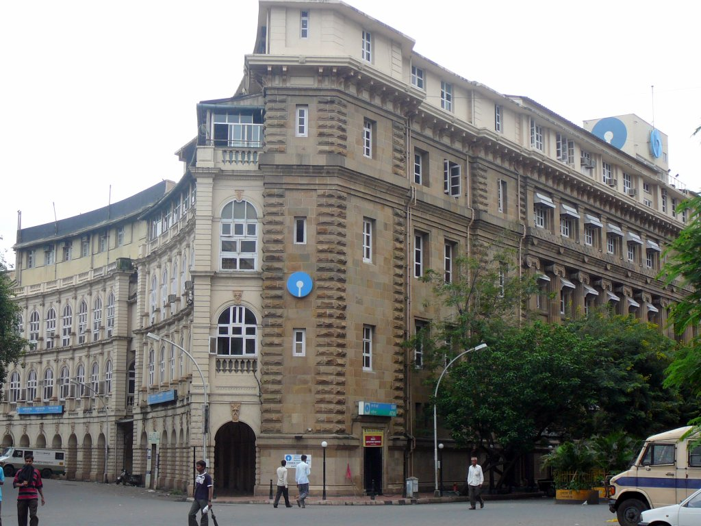 SBI hq in Mumbai